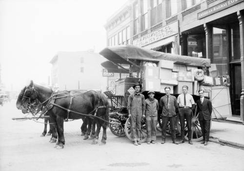 American Railway Express employees pose with a loaded freight wagon in Helena, Montana, November 1, 1922. L. H. Jorud, photographer. In the collection of the Montana Historical Society Photograph Archives, Lot 037 CB B01 F18a E2.1